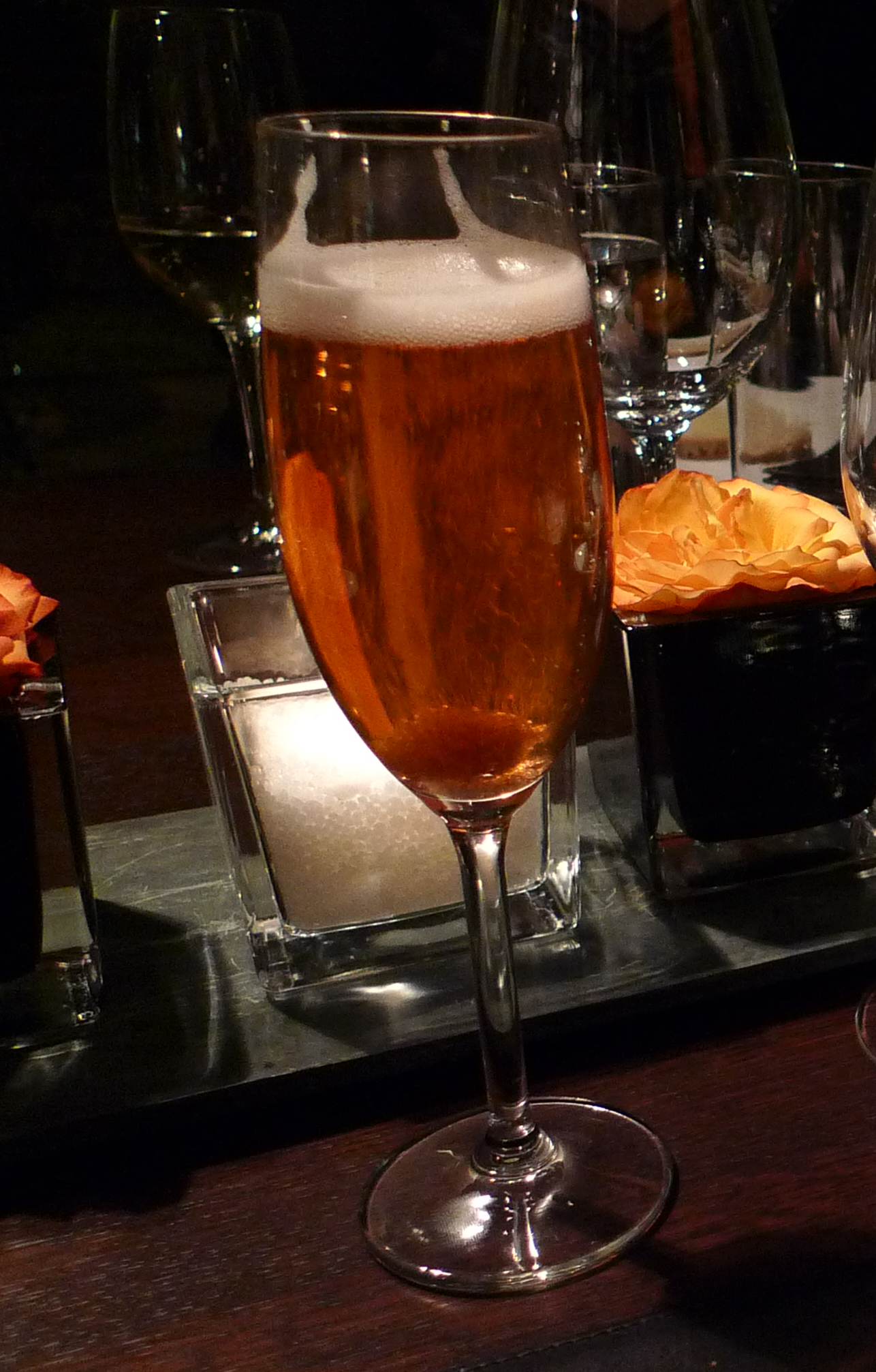 A champagne cocktail and a bellini, amongst all the waiting wine and water glasses. At Portal, St John Street.